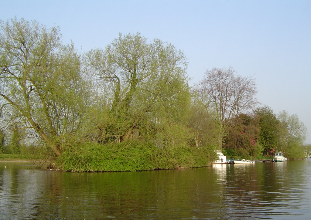 Small island between Thames Ditton and Boyle farm